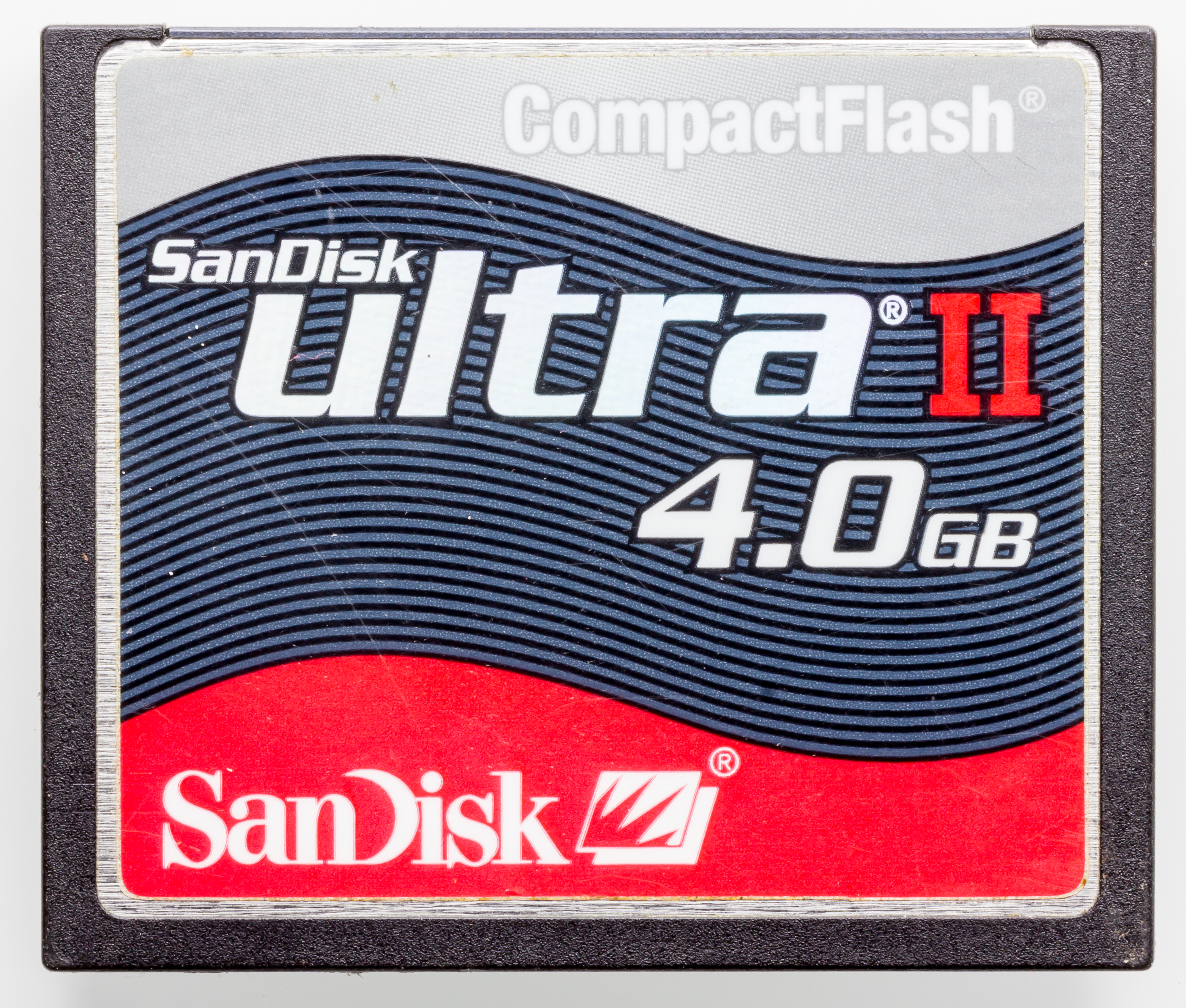 CompactFlash SanDisk Ultra II 4 GB